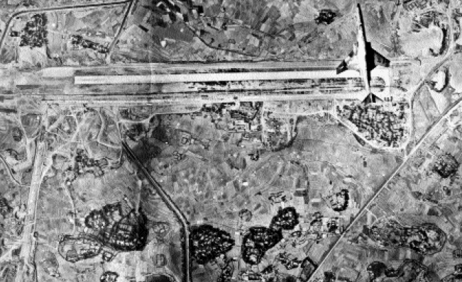 A U.S. Air Force McDonnell RF-101C Voodoo flies over Kep air base, North Vietnam.